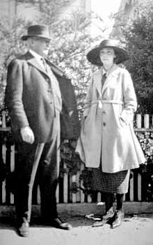 Fred Swanton (1862–1940) was a businessman who became the first agent of actress ZaSu Pitts (1894-1963). Swanton promoted using the Santa Cruz, California area as a movie production site, and later served as its mayor.